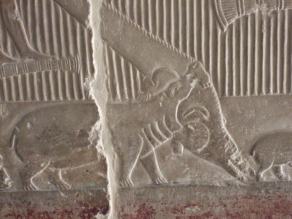 A carved relief of a hippopotamus attacking a crocodile from the tomb of Vizier Mereruka in Saqqara, Egypt. Mereruka served as Vizier during king Teti's reign in the beginning of the 6th dynasty of Egypt.